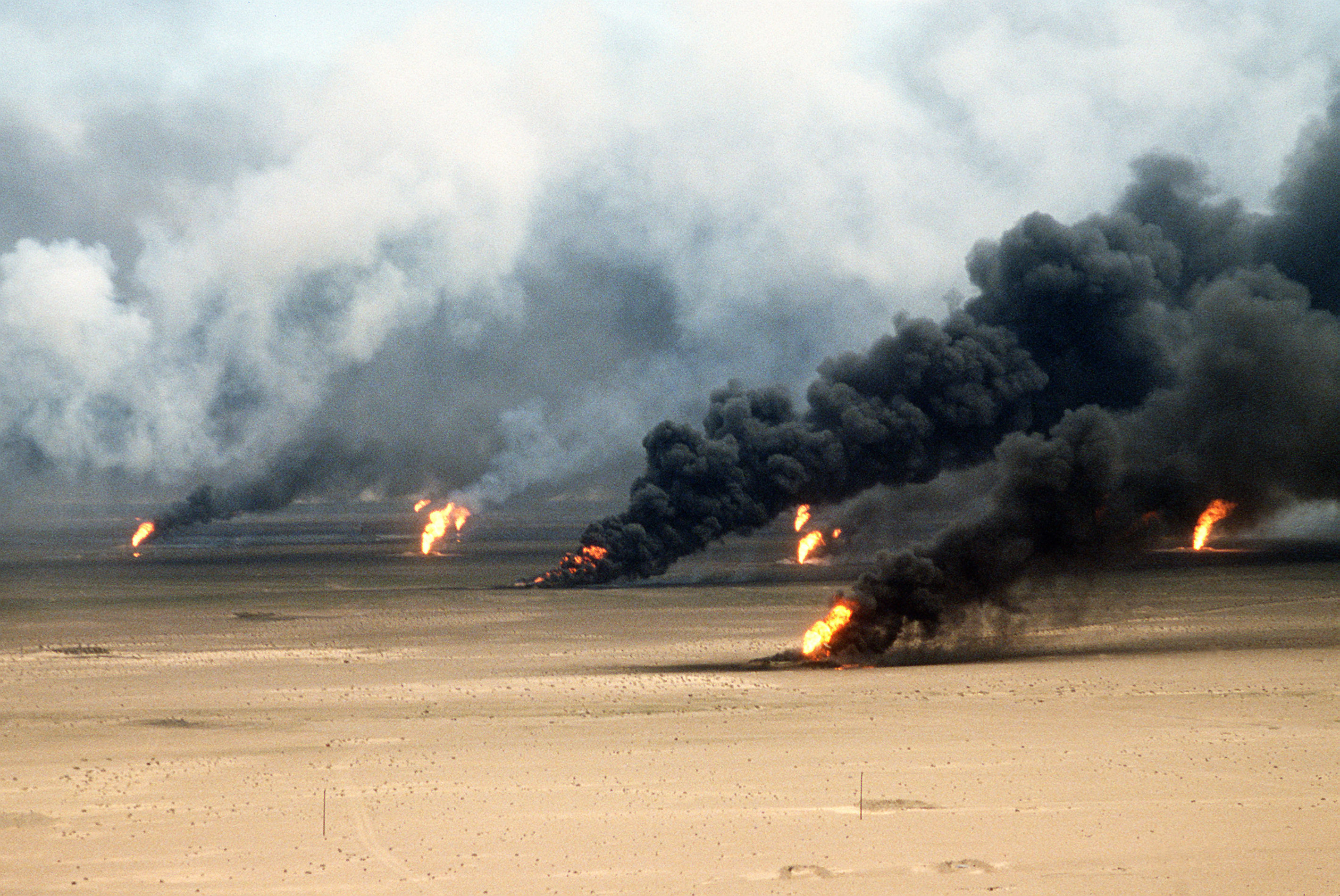 Oil well fires rage outside Kuwait City in the aftermath of Operation Desert Storm. The wells were set on fire by Iraqi forces before they were ousted from the region by coalition force.